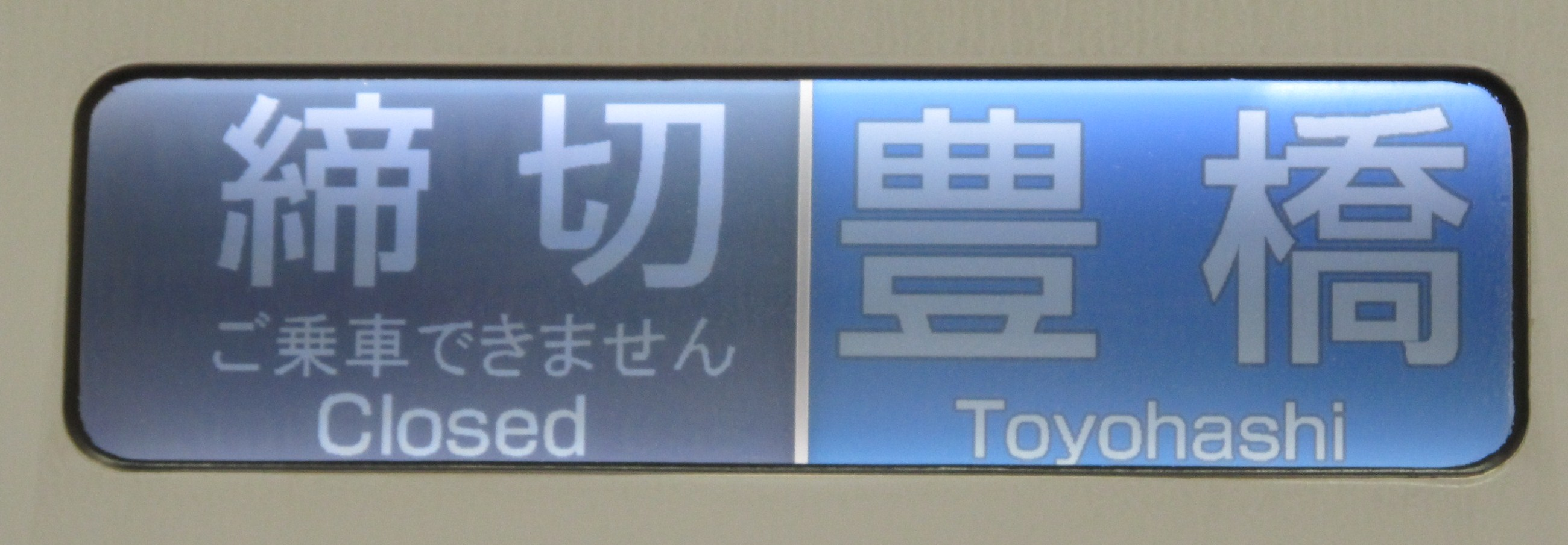 Rollsign of Nagoya Railroad Series 2200, First class car "Closed" display. Express bound for Toyohashi.